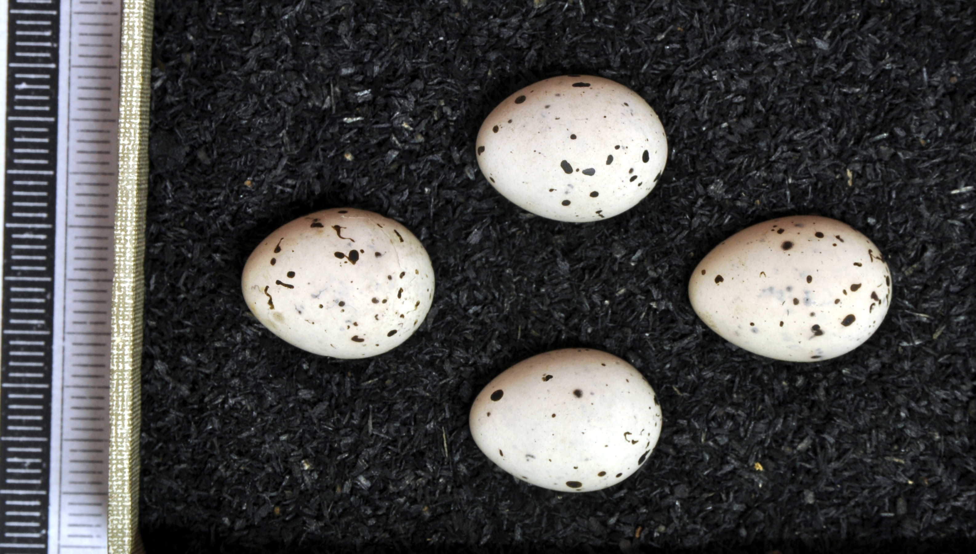 Western olivaceous warbler Iduna opaca , egg, Coll. Museum Wiesbaden